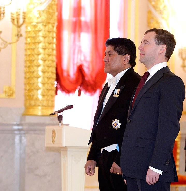 GRAND KREMLIN PALACE, MOSCOW. Presentation by foreign ambassadors of their letters of credence. With Ambassador of the Kingdom of Tonga Sione Ngongo Kioa.